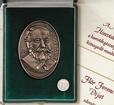 Ferenc Flór prize